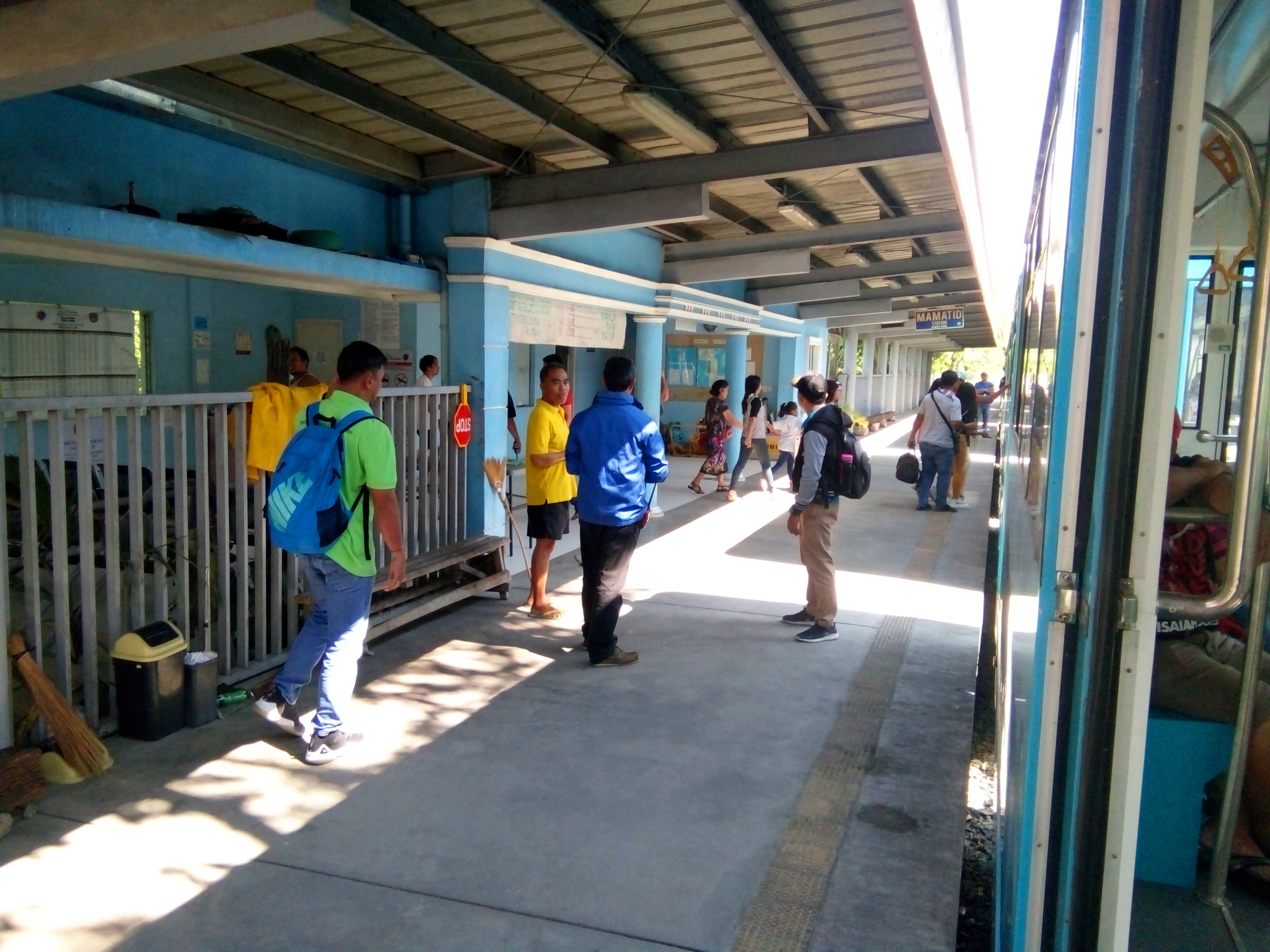 Istasyon ng tren ng PNR sa Mamatid, Cabuyao, Laguna.